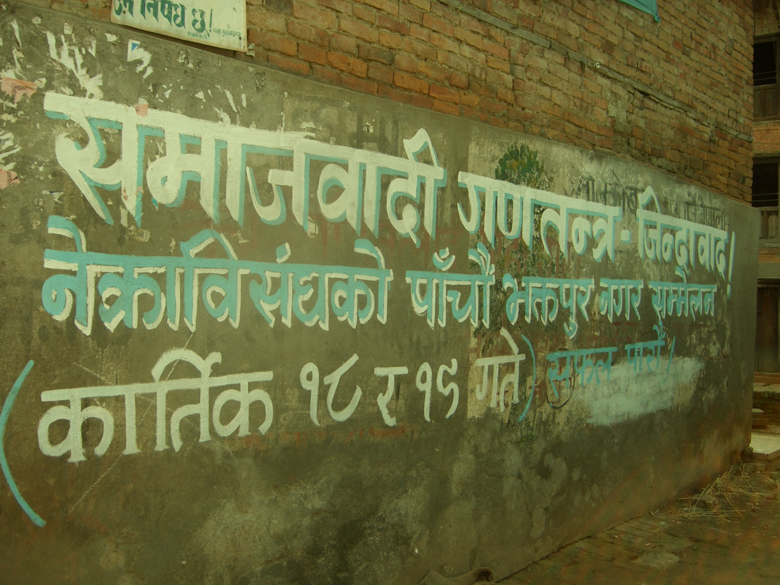 Photo: Soman